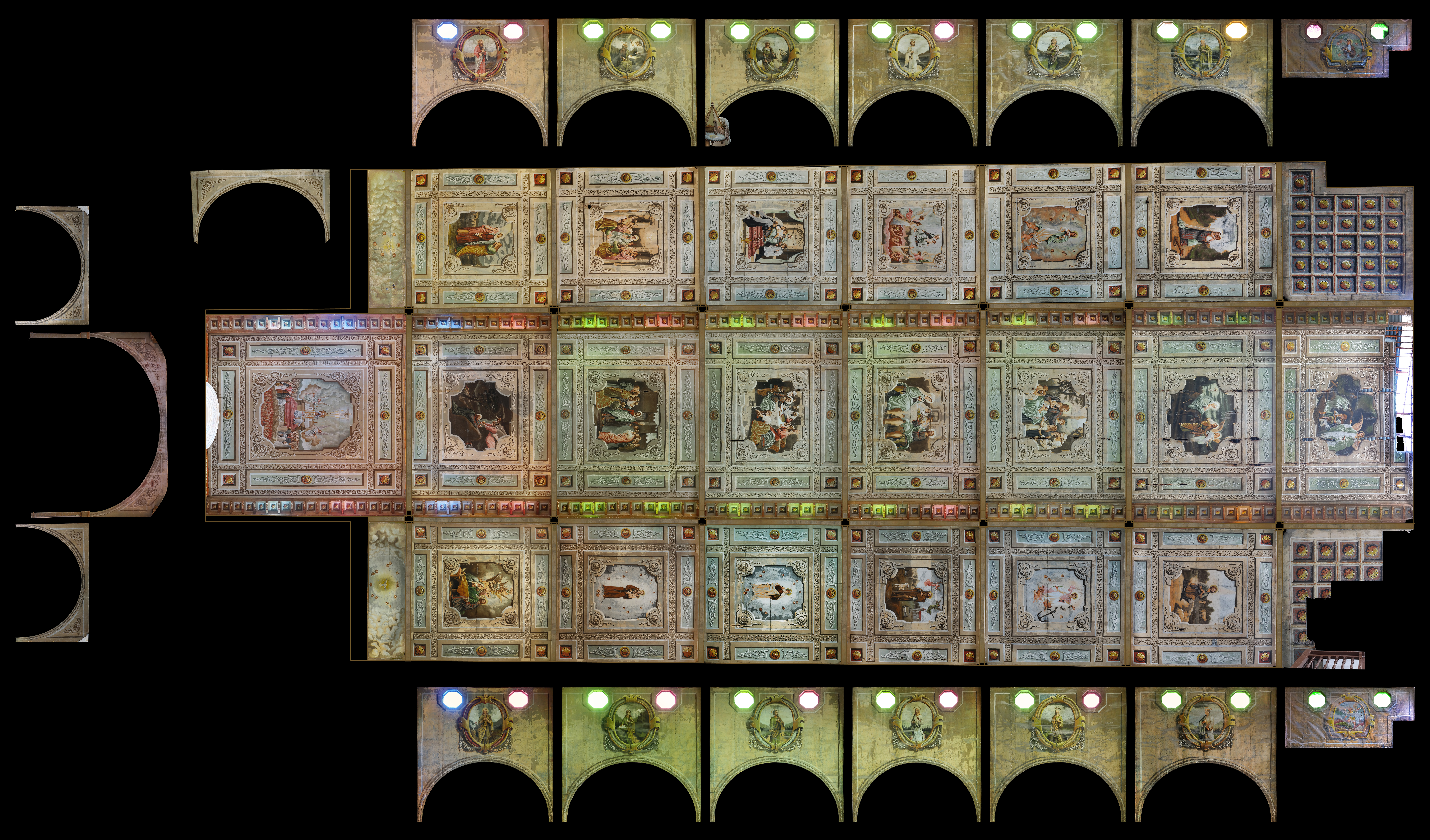 Ceiling Paintings_07_Nuestra Sra. del Santissimo Rosario Parish Church, Lila, Bohol (100 dpi)